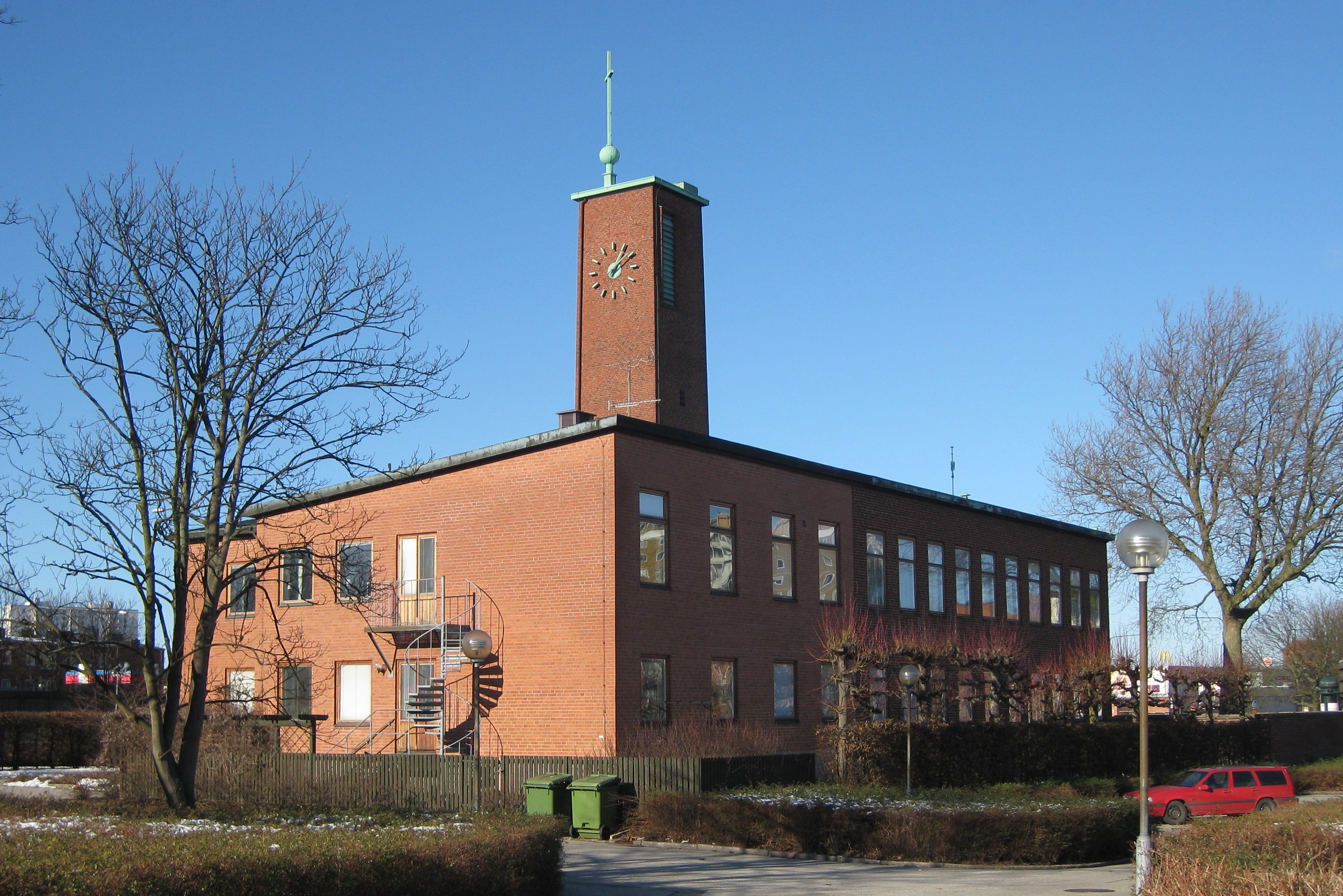 Holy Trinity Church in Malmö, Sweden